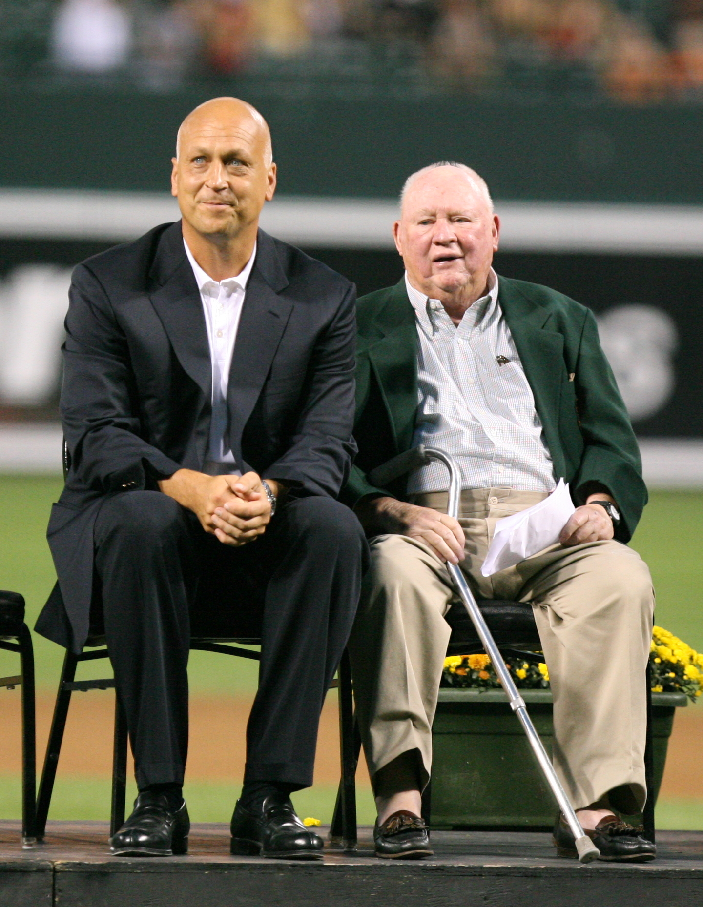 Cap Ripken, Jr is honored at Camden Yards in August 2007